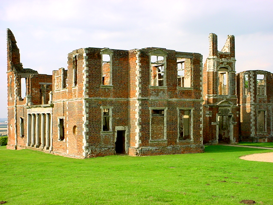 Ruins of Houghton House, near Ampthill, Bedfordshire, UK. Originally built in 1621 by Mary Sidney, Countess of Pembroke, this building provided the inspiration for House Beautiful in John Bunyan's famous work 'The Pilgrims Progress'. Photo taken by APB-CMX in 2002.